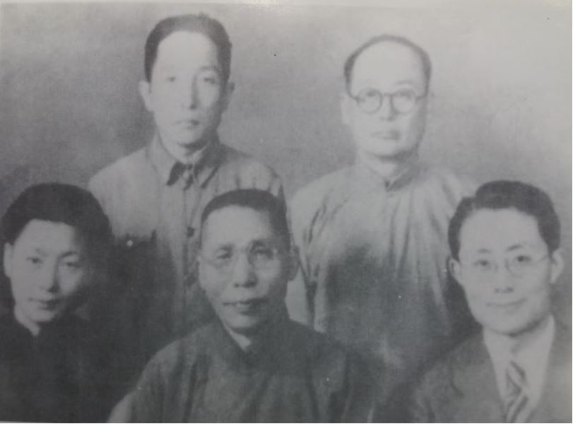 Kim Koo took photos with Chinese engineers who help made the bombs used by Yun Bong-gil